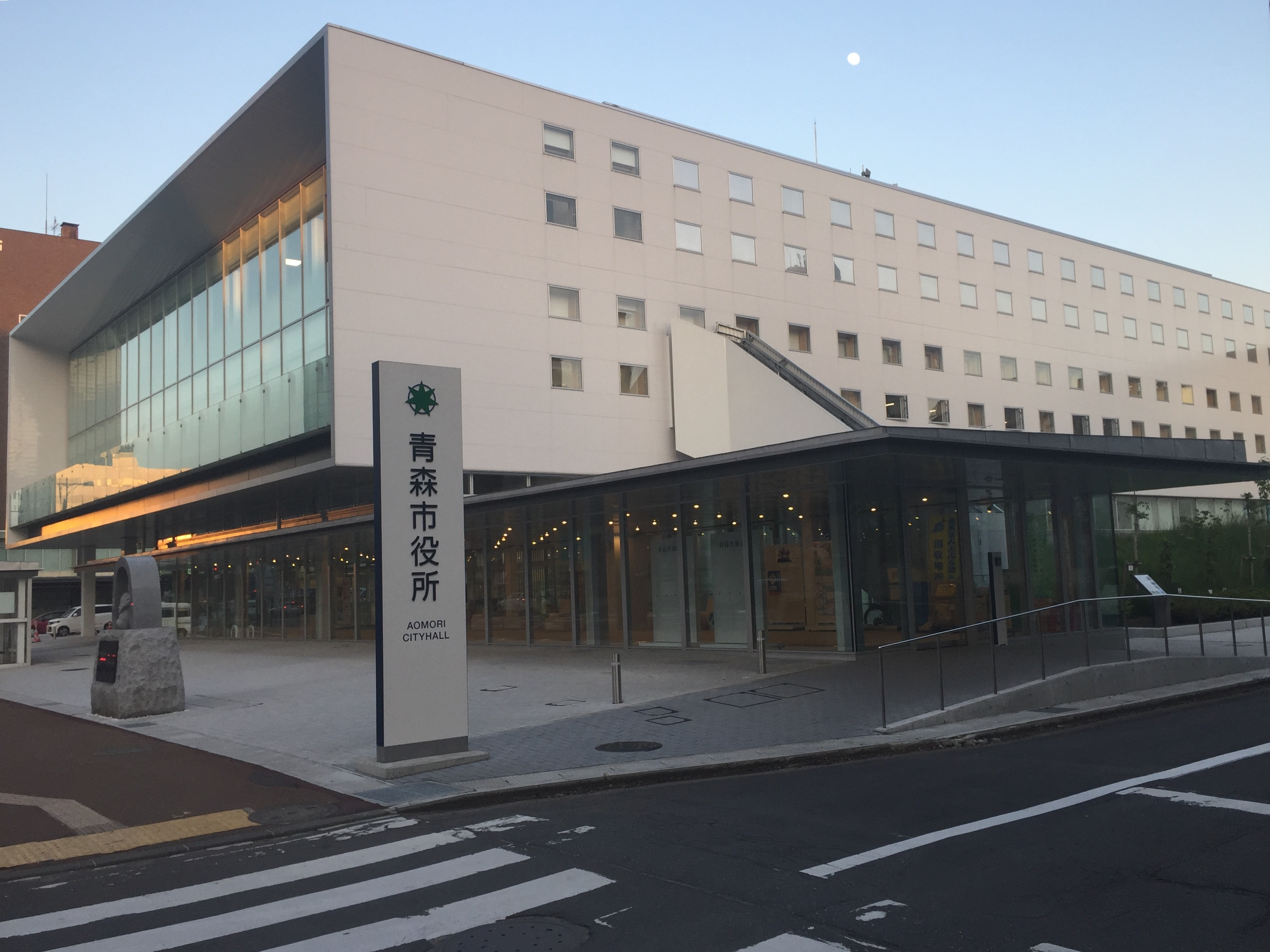 Aomori City Hall after its renovation that was completed in 2019